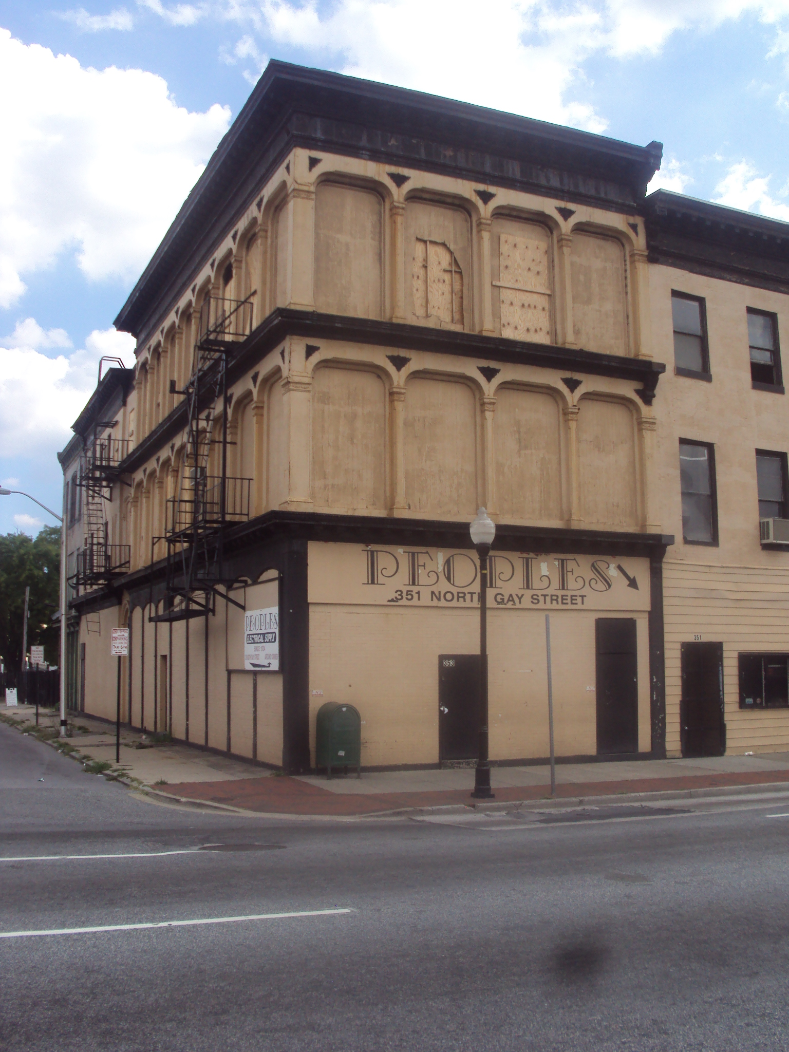 Old Town Savings Bank, 353 N. Gay St. East